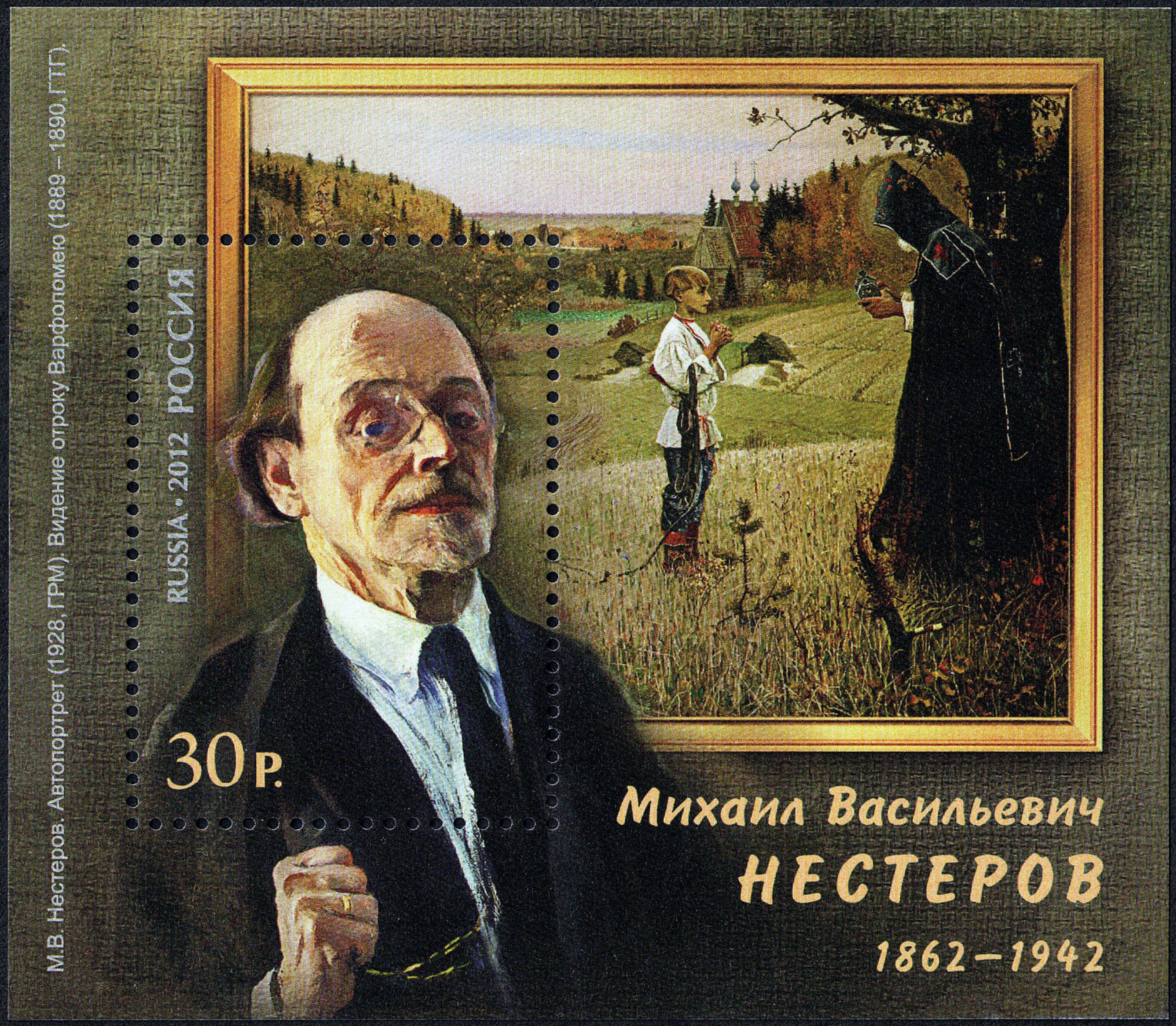 150th birth anniversary of the Russian painter Mikhail Nesterov (1862–1942).The souvenir sheet of Russia, 1 stamp×30.00 Rubles, 17 May 2012, PTC Marka Catalogue No 1591, Michel No 1823 (Block163). Coated paper. Offset printing. Perforation: frame 12×12½. The size of the souvenir sheet: 83×73 mm. The size of the stamp: 30×42 mm. Print run: 90,000.The Self-Portrait of Mikhail Nesterov. 1928.The Vision of Youth Bartholomew by Mikhail Nesterov. 1889–1890. (on the margins of the souvenir sheet).